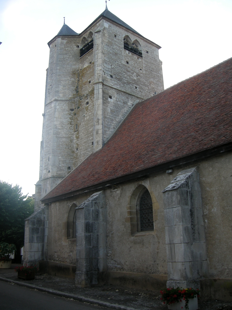 Church Saint-Martin Facade Sud